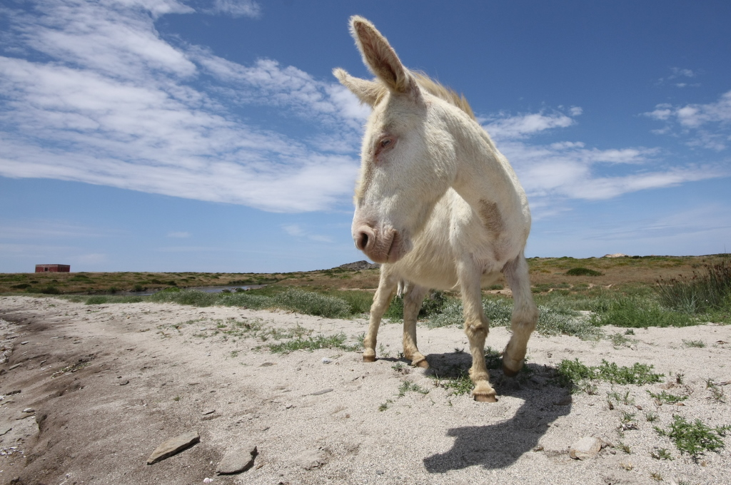 White donkey, in the isle of Asinara, Sardinia Asinara National Park